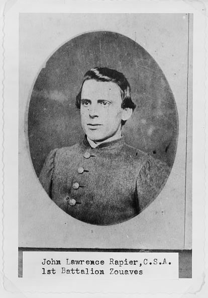 John Lawrence Rapier, Pvt, Louisiana 1st Battalion Zouaves.